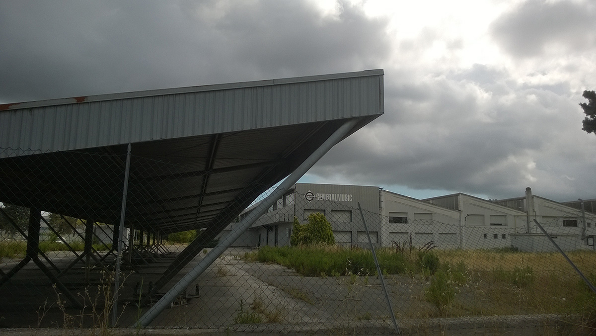 The former Gem Plant (formerly Elka) in the industrial area Squartabue (Recanati) photographed in 2014